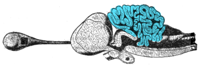 Section of the brain of a Porbeagle shark, with cerebellum highlighted. This drawing is taken from the 1911 edition of the Encyclopedia Brittanica.